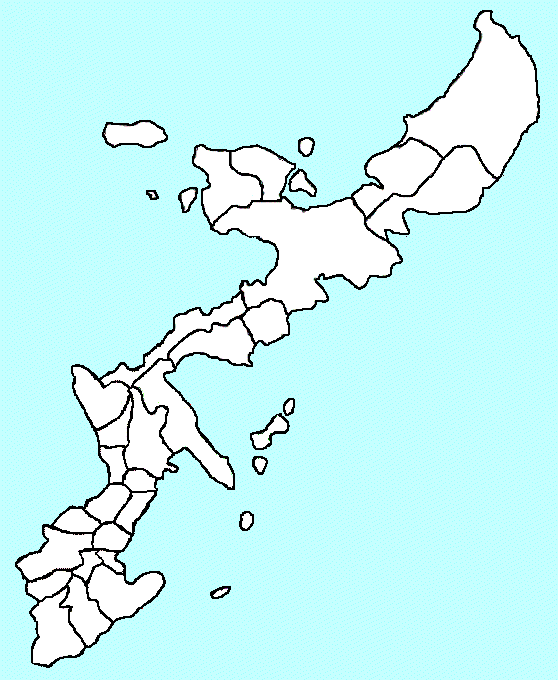 Administrative divisions in Okinawa Island.